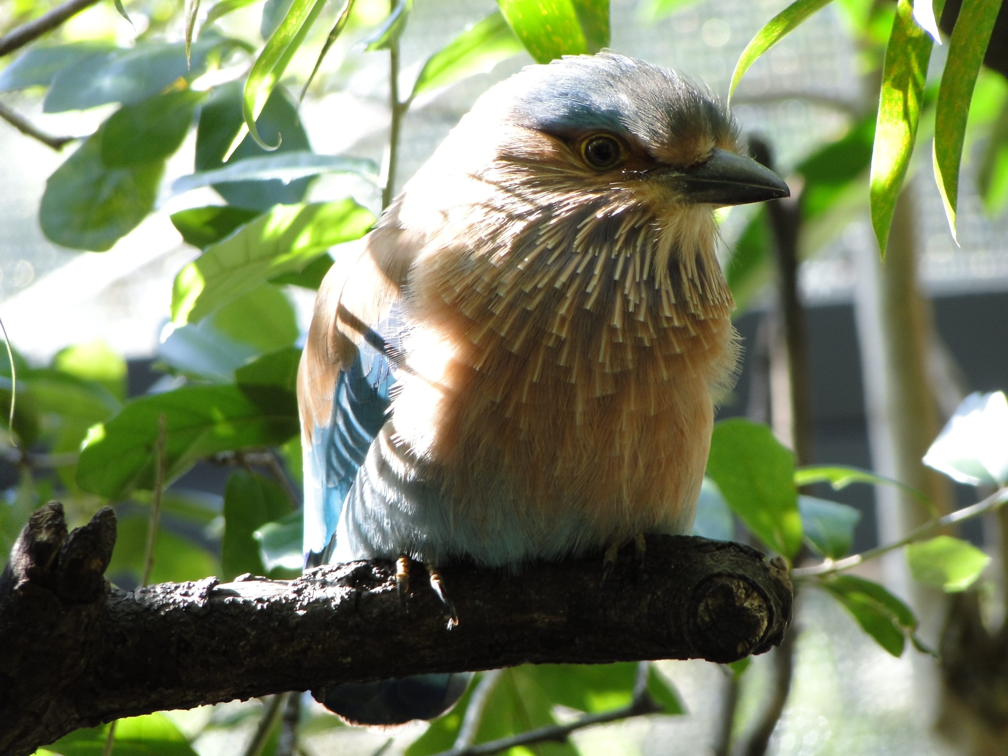 Indian Roller at Palm Beach Zoo, Dreher Park, West Palm Beach, Florida, USA.